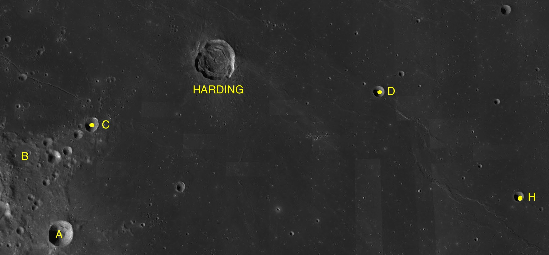 Part of the chart LAC-22